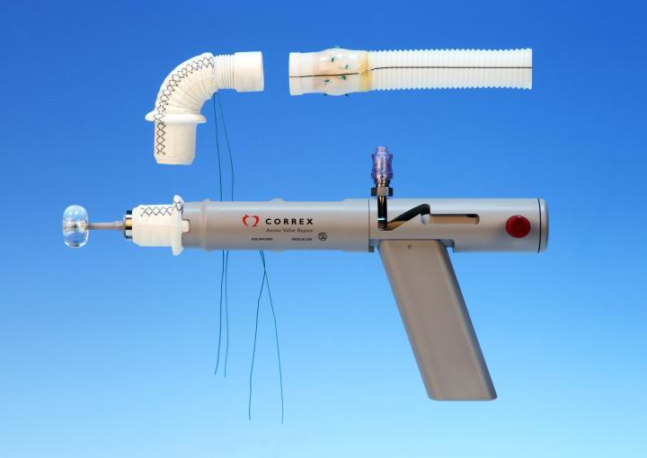 View of complete Correx Aortic Valve Bypass Kit including Left Ventricle Connector, Valved Conduit, and Applicator. 18mm size